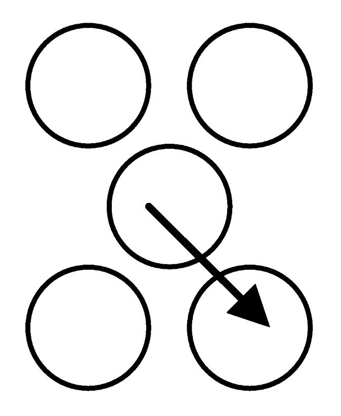 Jake Simson